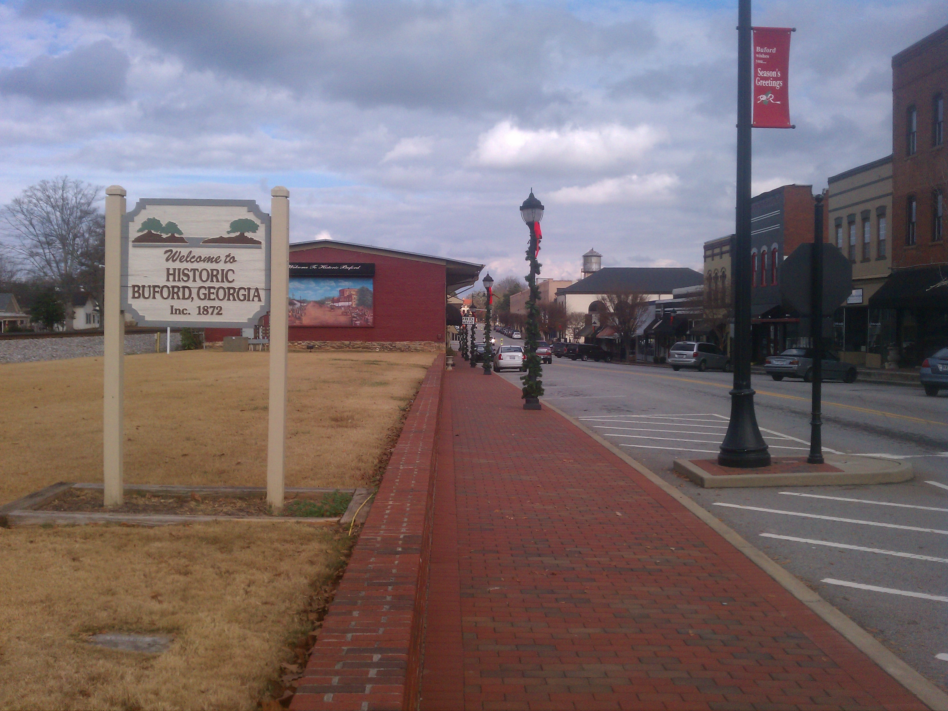 A photo of Main Street in Buford, Georgia including a "Welcome to Historic Buford, Georgia" sign.